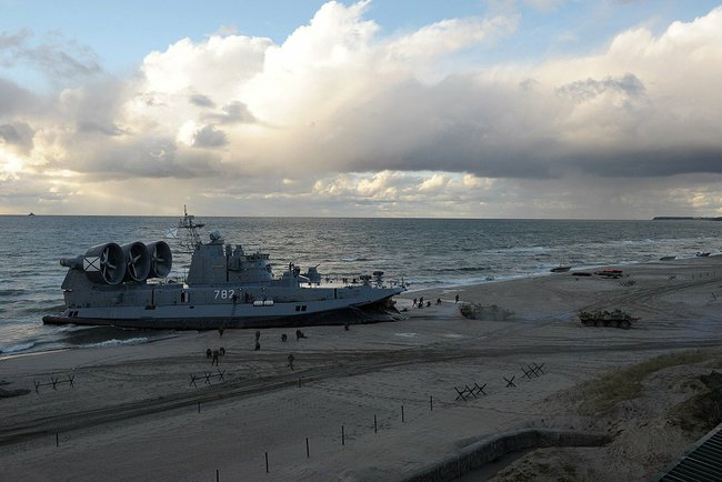 Landing craft air cushion class "Zubr", military exercises "Zapad-2013". Landing on the coast.